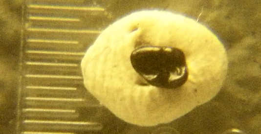 Cropped image of taxon in file name